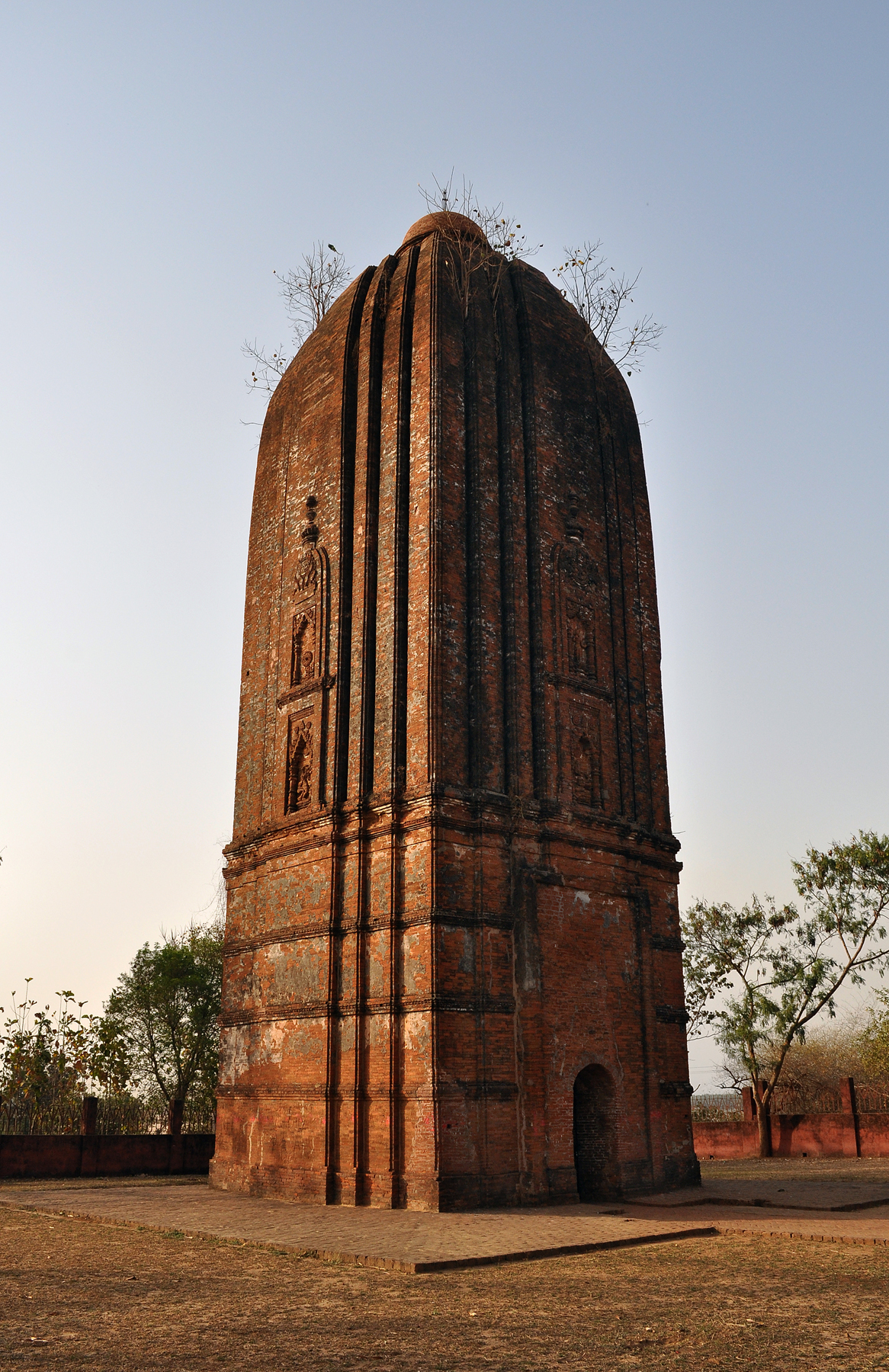 This monument, although called 'The temple of Ichhai Ghosh' or 'Ichhai Ghosher Deul' in local language (Bengali), bears no mark of any deity placed there. This ancient brick built monument was built by the river Ajay in present Bardhaman district of West Bengal, probably during 7th century AD by Ichhai Ghosh, a fierce leader and a real hero of the local milkman community, who even challenged the then king of Gour (Bengal) and defeated him in battle and proclaimed himself as the king of the local area of 'Trishasthi' or 'Dhekur' within the state of Gour. This monument was probably built to commemorate his win over the king of Gour or may be it was built as a temple of the goddess 'Mother Shyamarupa'. Ichhai was dedicated to the deity, though no sign remained afterwards. This is a part of history also described in the 'History of Bengali Literature' epic 'Dharmamangal'.